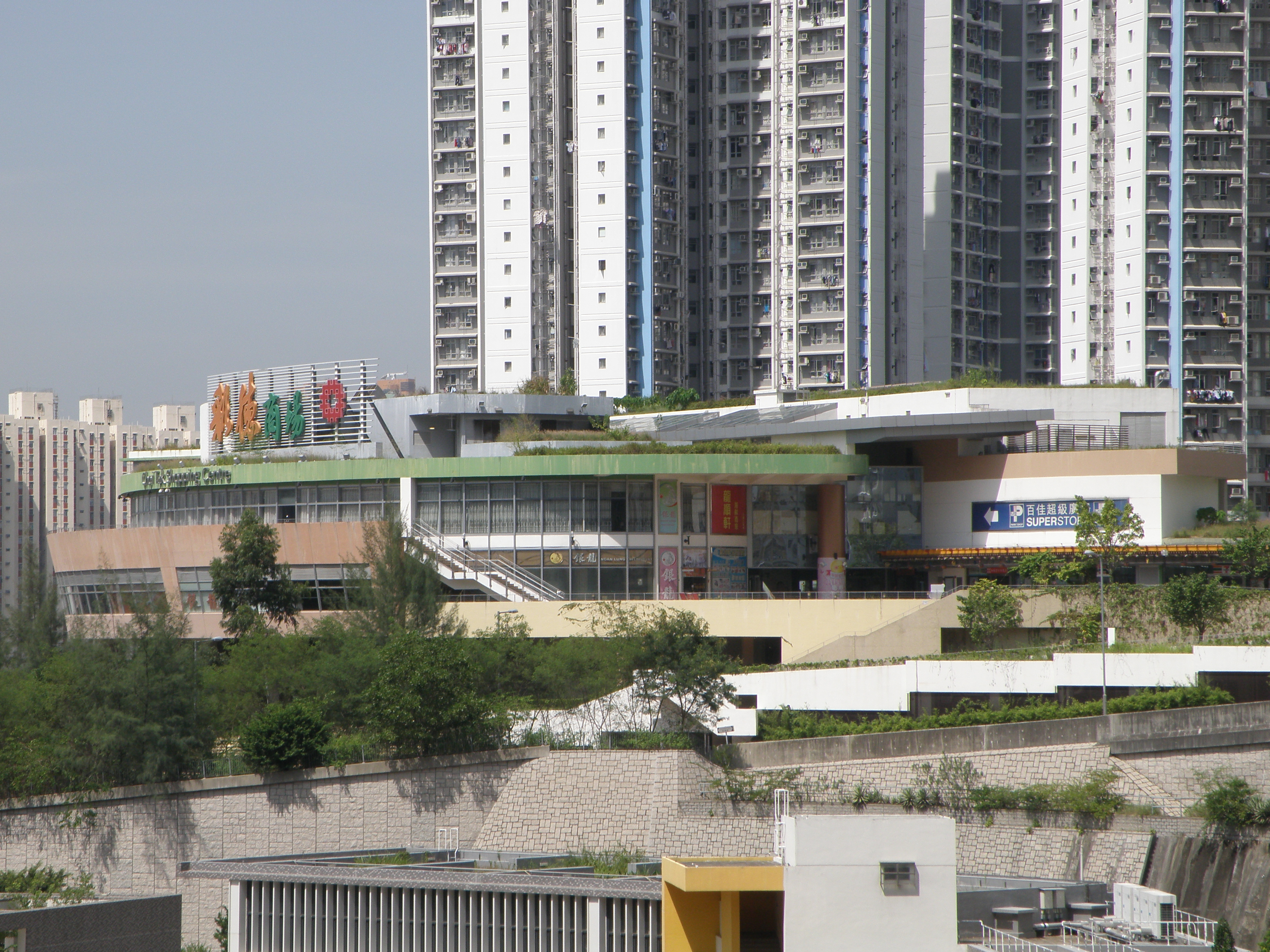 Choi Tak Shopping Centre in Kowloon Bay, Hong Kong.